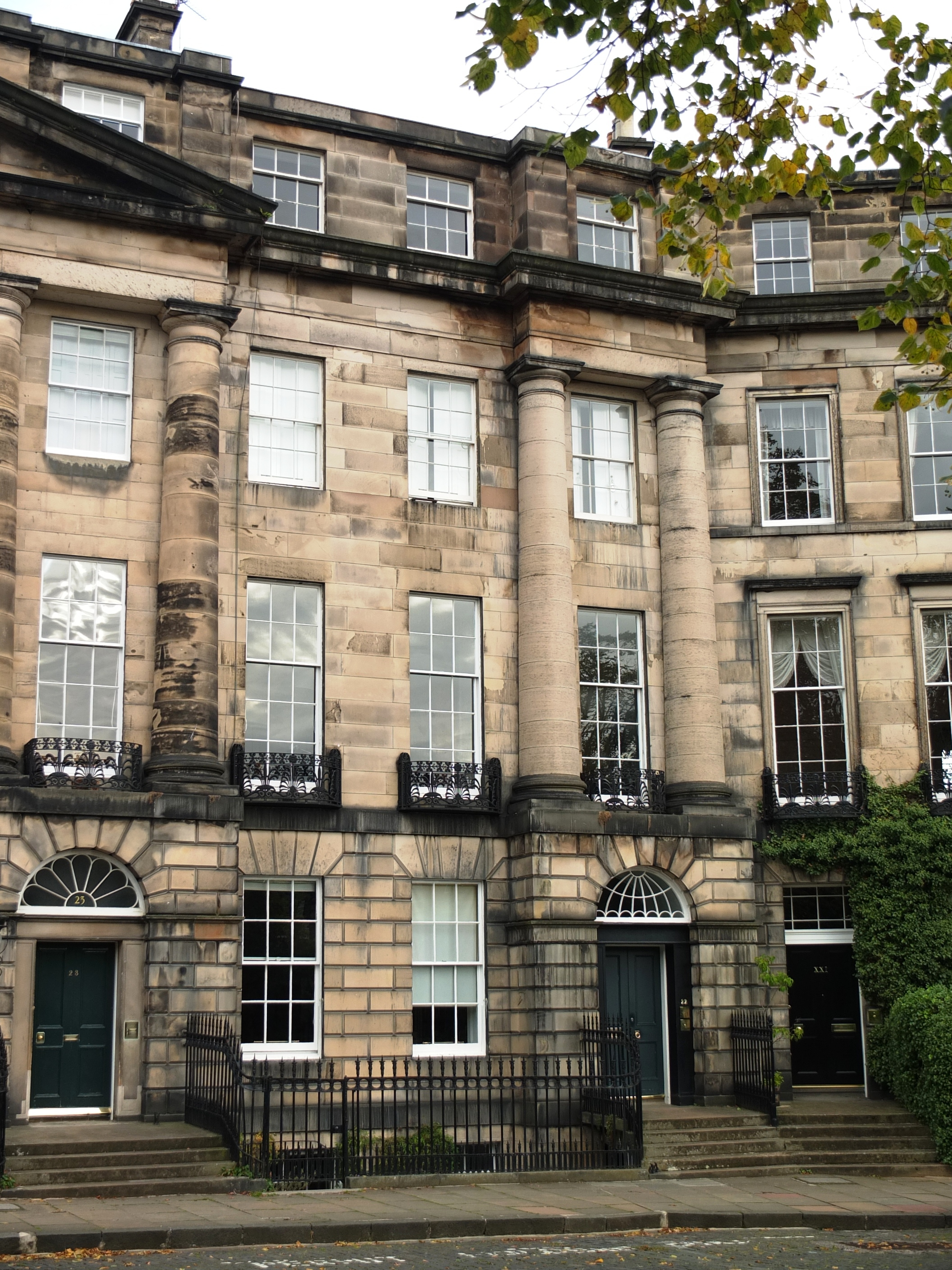 19-36A Moray Place